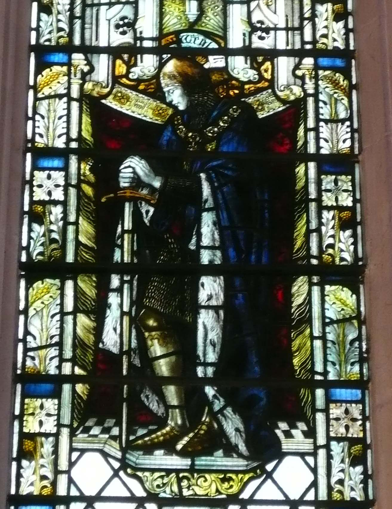 Photograph of of image of Sir John Wenlock in a stained glass window in the Wenlock Chapel in St Mary's.